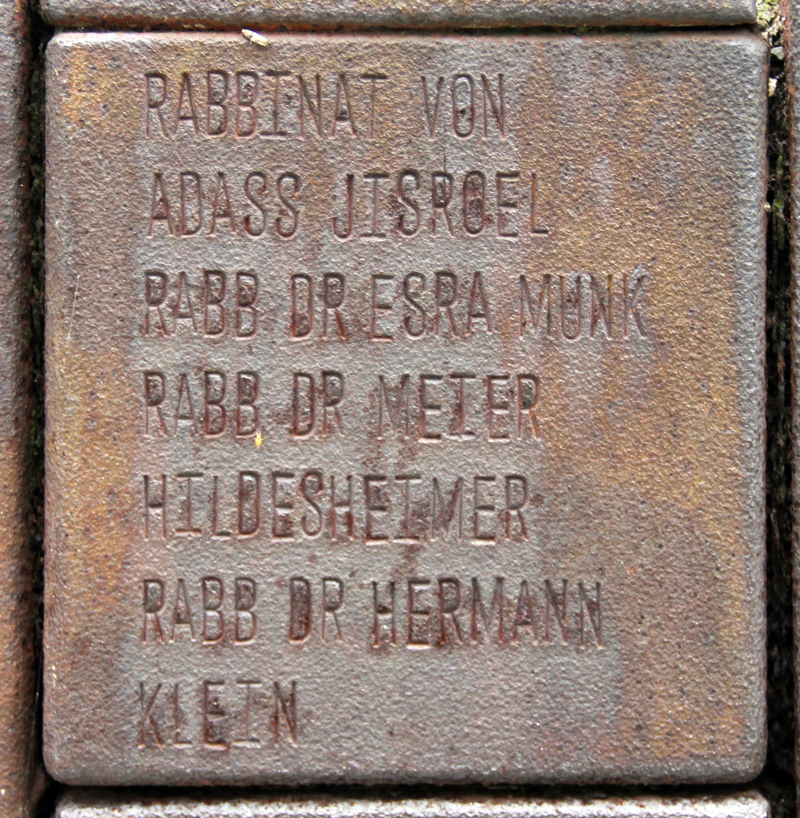 Memorial plaque, Adass Jisroel, Siegmunds Hof 11, Berlin-Hansaviertel, Germany